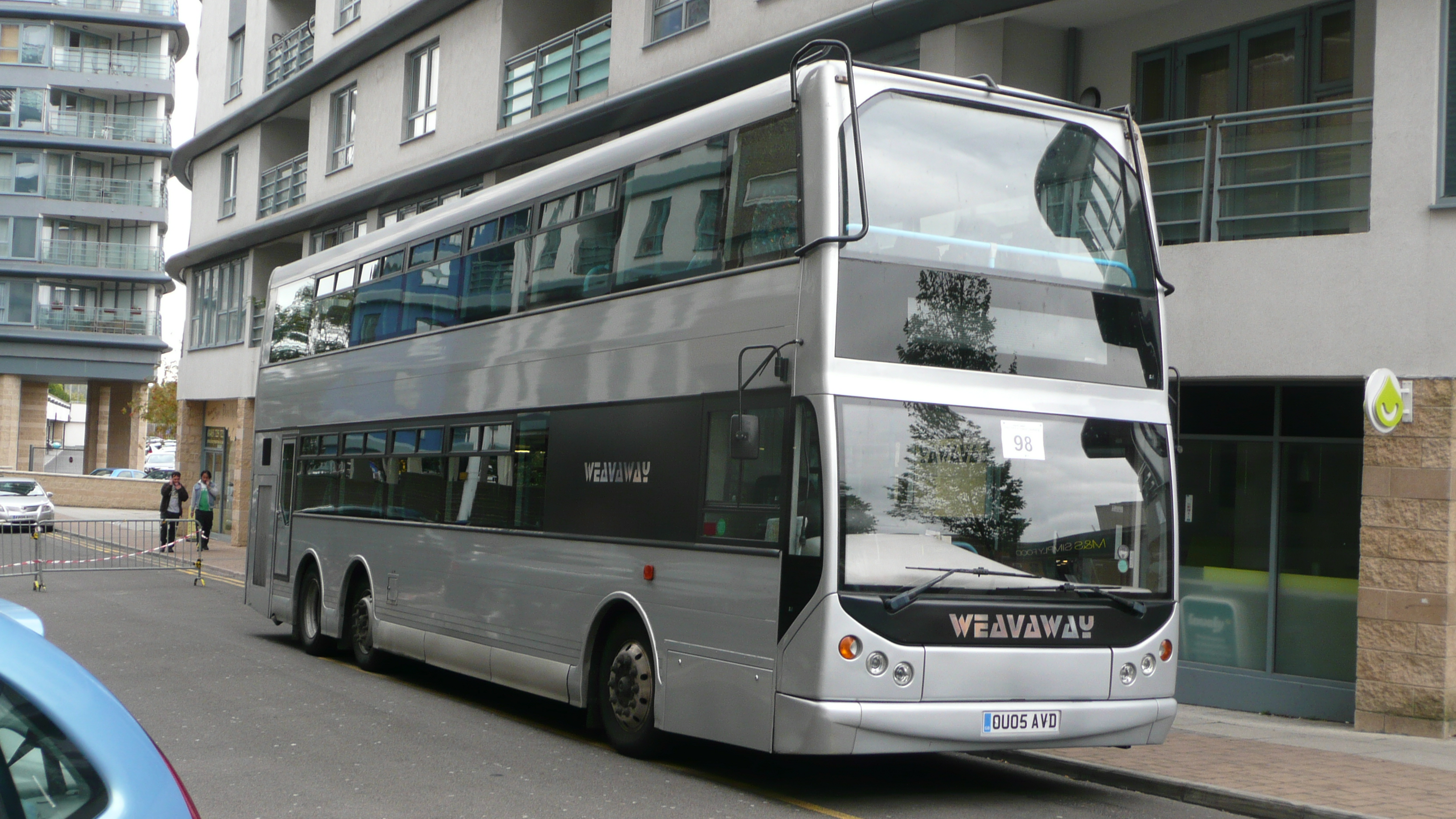 Weavaway Travel OU05 AVD, a Volvo B9TL/East Lancs Nordic, on the south side of Woking railway station, Station Approach, Woking, Surrey, laying over between duties on South West Trains rail replacement work.